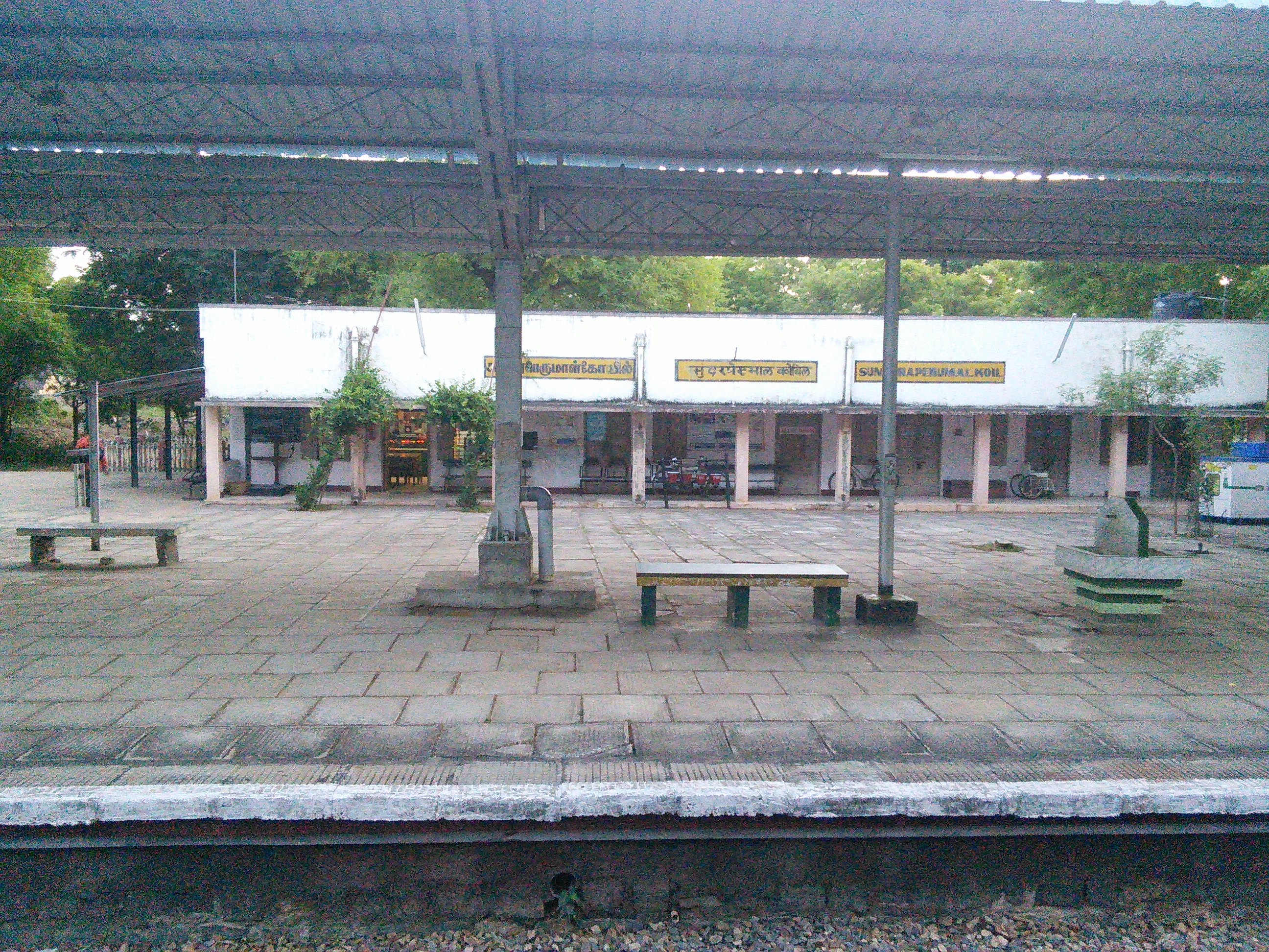 Photograph of the railway station at Sundara Perumal Koil village near Kumbakonam, Thanjavur district.